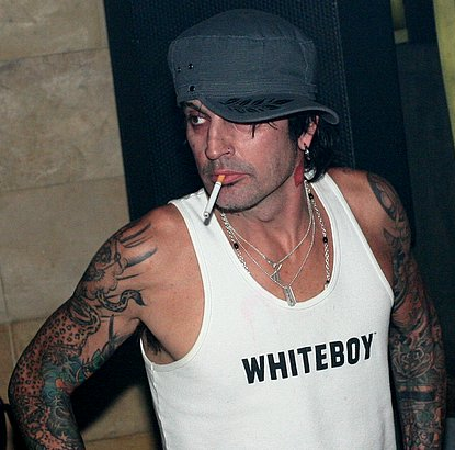 Tommy Lee's Halloween Party at Club Medusa on October 30, 2005.